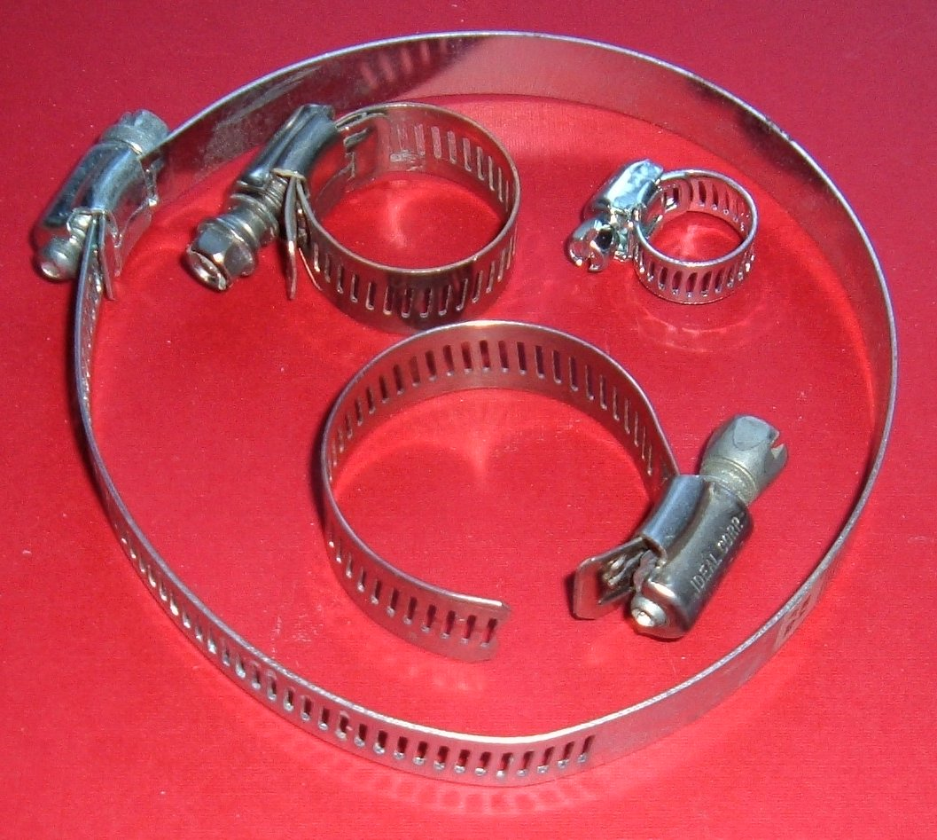 Assorted hose clamps of the screw/band variety. I took this photo of artifacts in my possesson.